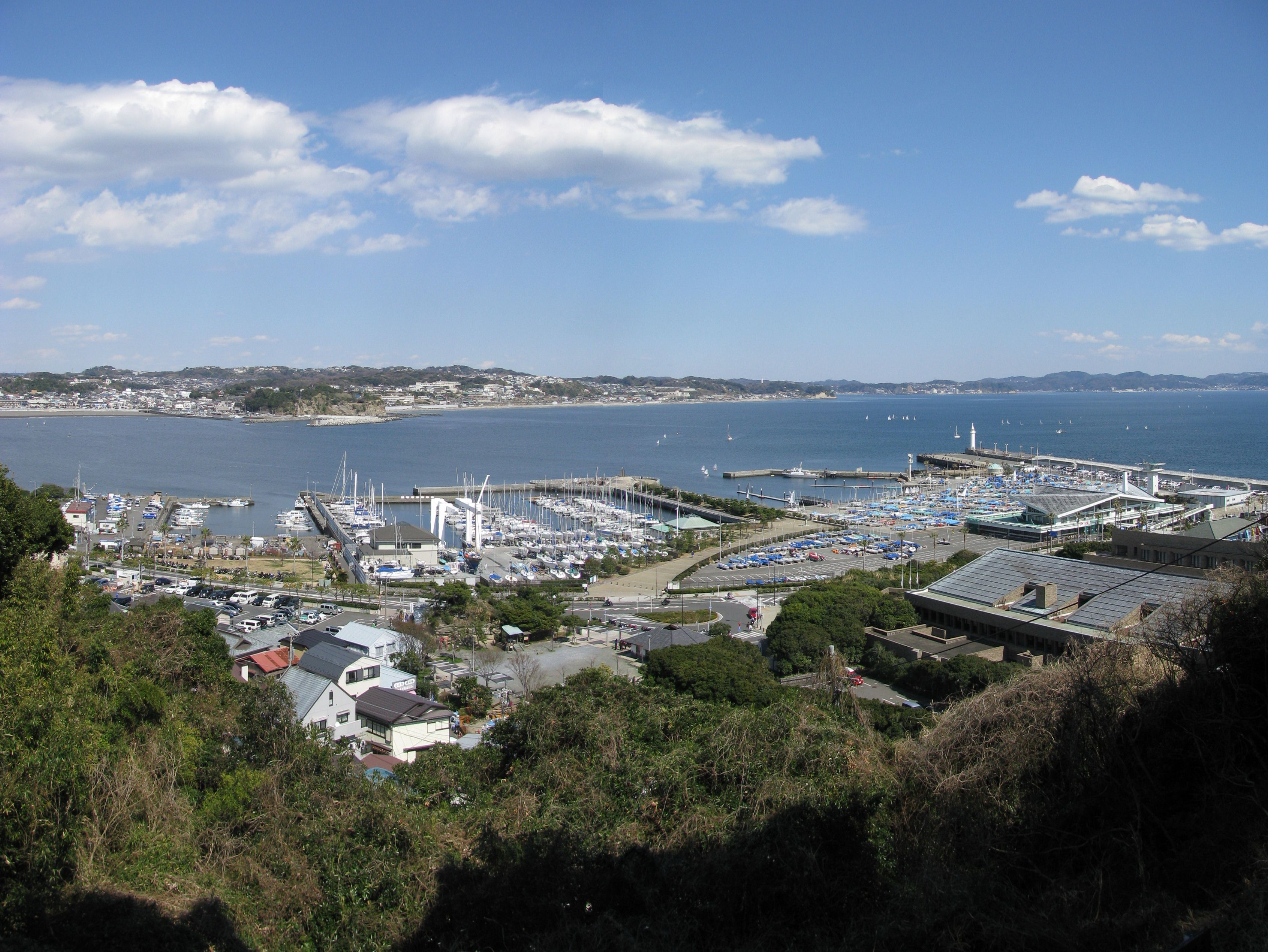 The Enoshima. This located is in Fujisawa, Kanagawa Prefecture, Japan.